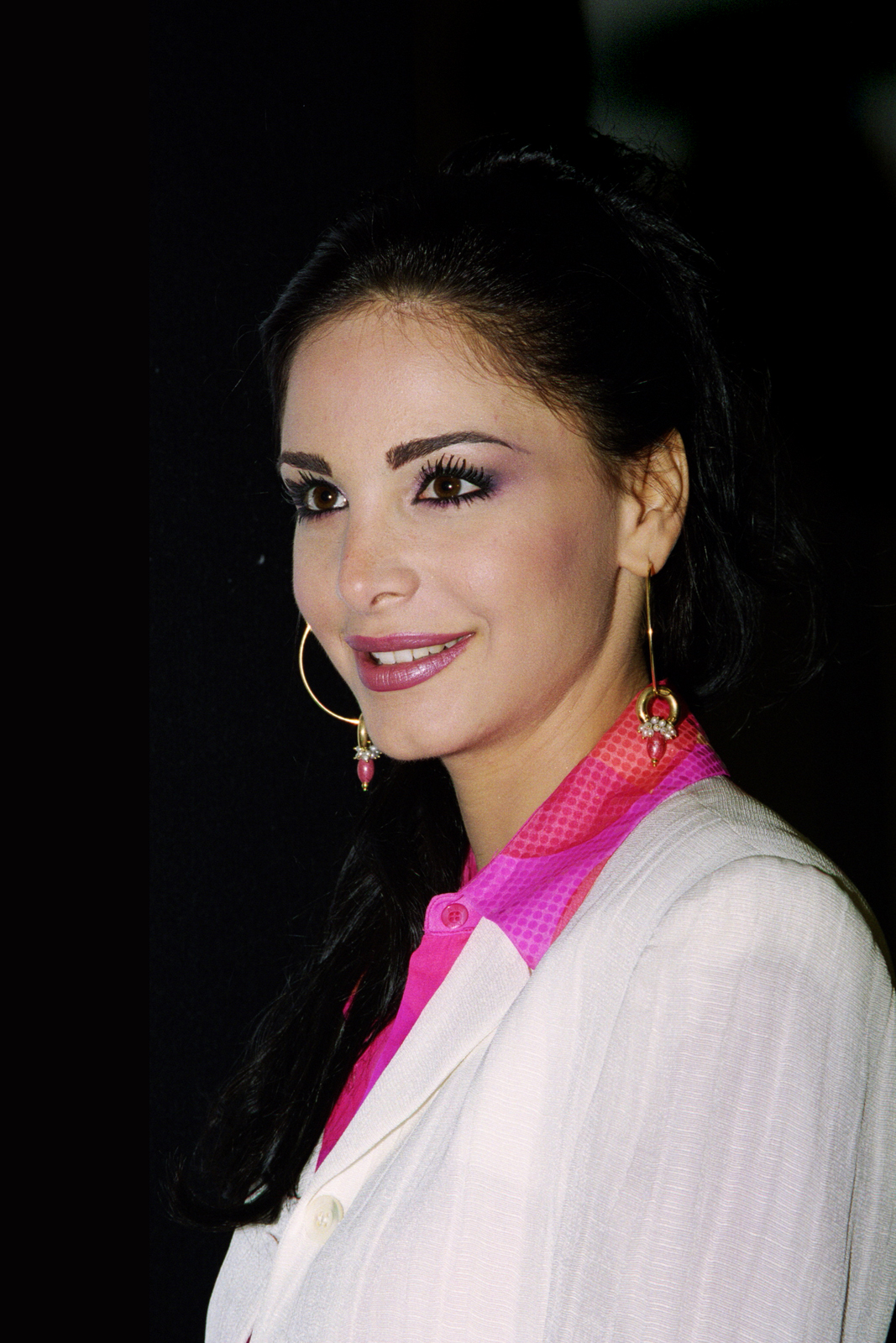 JOELLE BEHLOK - Miss Lebanon 1997 - Lebanese Actress in the Drama series as the lead female role - Princess Shaima - in the Drama series "The Last Cavalier"